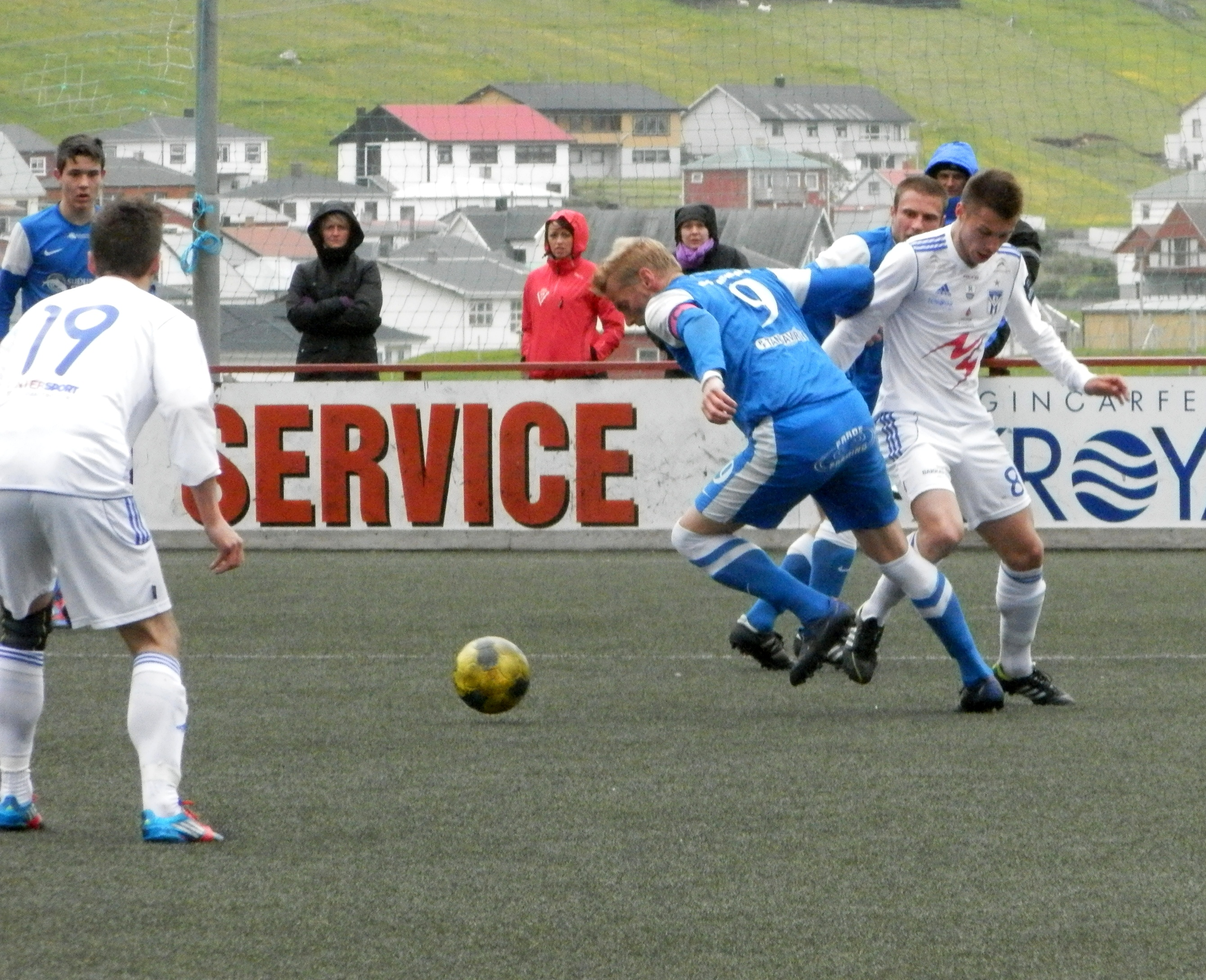 Football match (soccer) in the men's best division in the Faroe Islands between FC Suðuroy and KÍ Klaksvík. KÍ won this match 4-1. The match was played in Vágur. Føroyskt: Fótbóltsdystur í Effodeildini 30. juni 2012 millum FC Suðuroy og KÍ. KÍ vann dystin 4-1. Dysturin varð leiktur á Eiðinum í Vági.